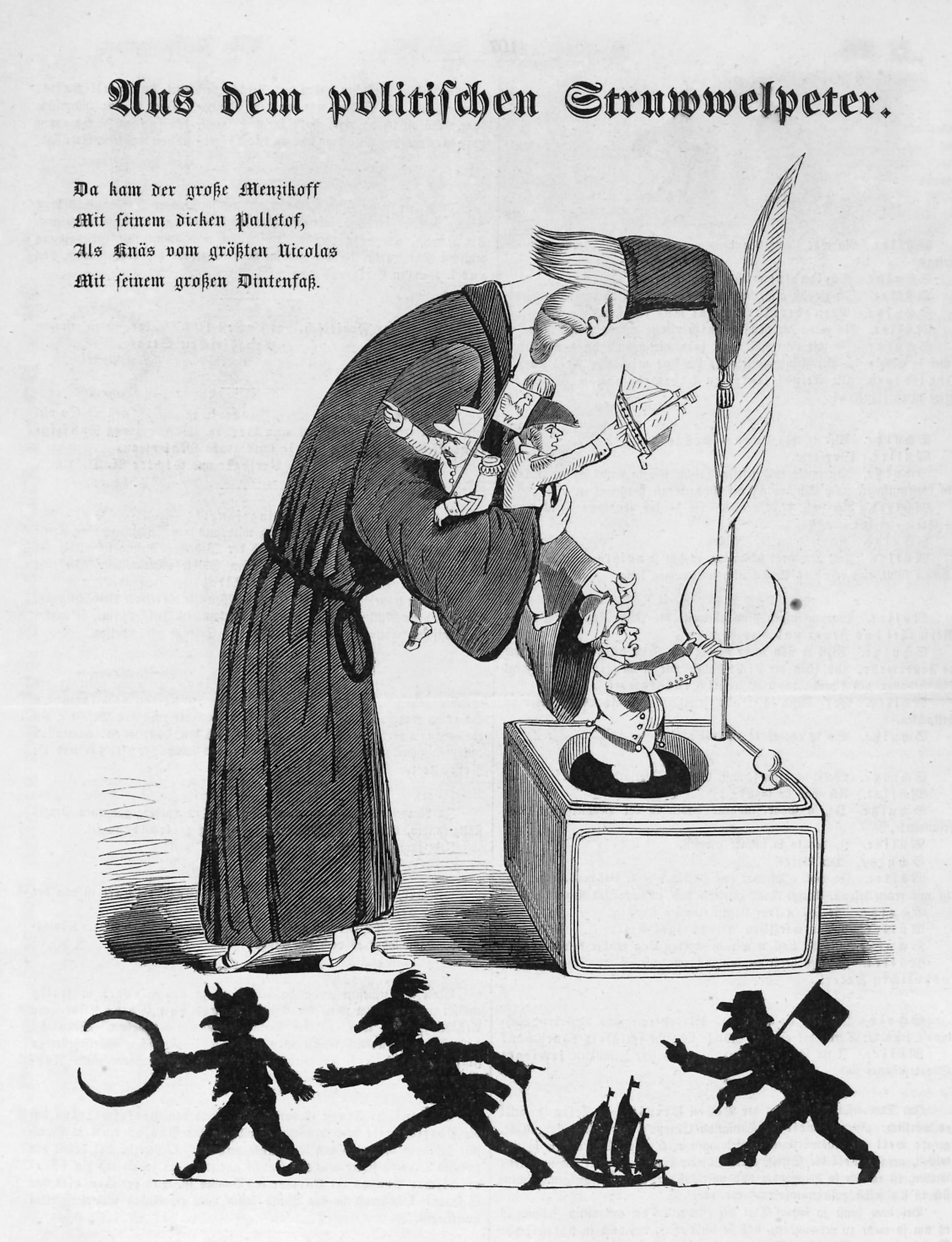 Karikatur, Kladderadatsch